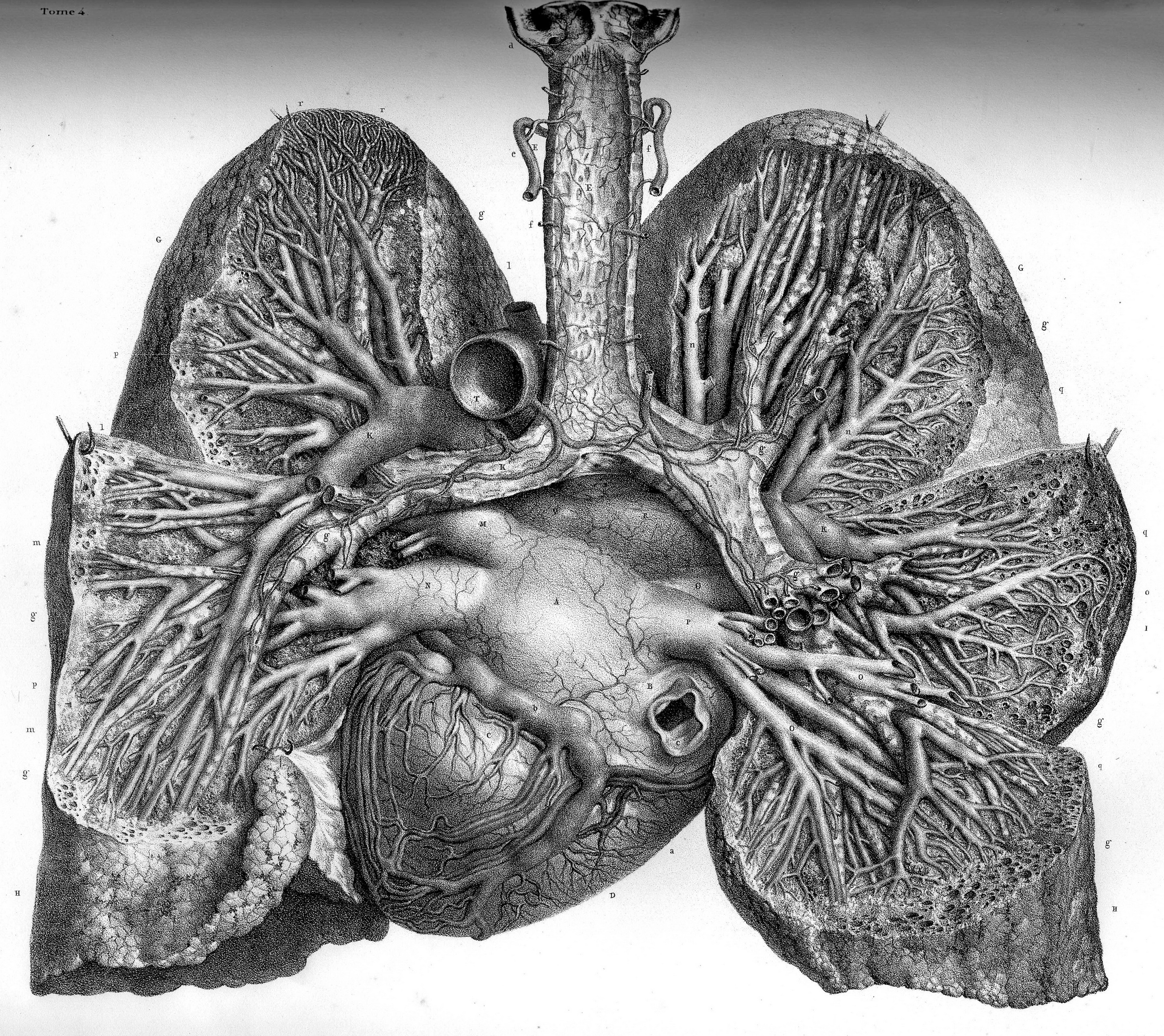 anatomical drawing : heart and lunfs